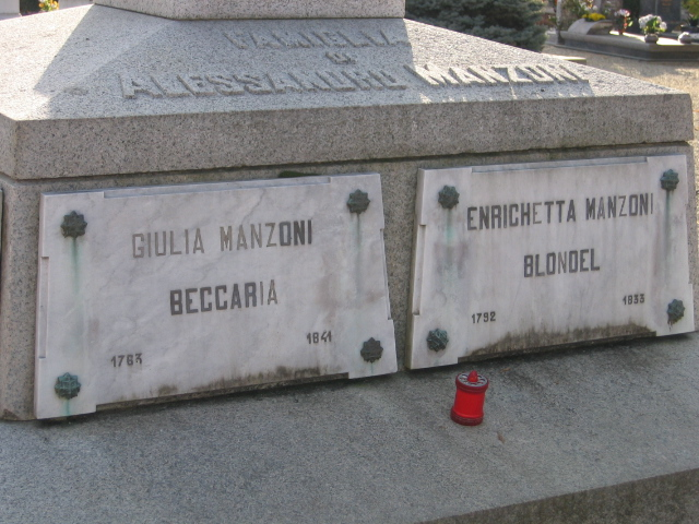 Giulia Beccaria and Enrichetta Blondel's grave in cemetery of Brusuglio, hamlet of Cormano (Milan)